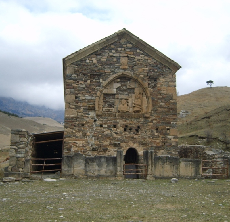 Tkhaba-Erdy (Ingushetia).